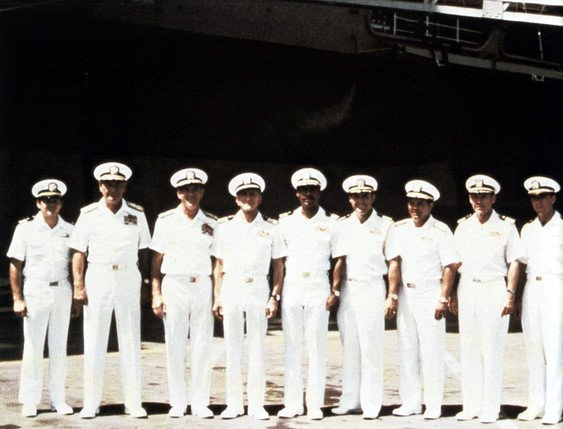 Actor Kirk Douglas (4th from left) with U.S. Navy officers (or actors?) in front of the aircraft carrier USS Nimitz (CVN-68) during the filming of the movie "The Final Countdown" in 1979. Kirk Douglas played the part of Capt. Matthew Yelland, fictional commanding officer of the Nimitz.